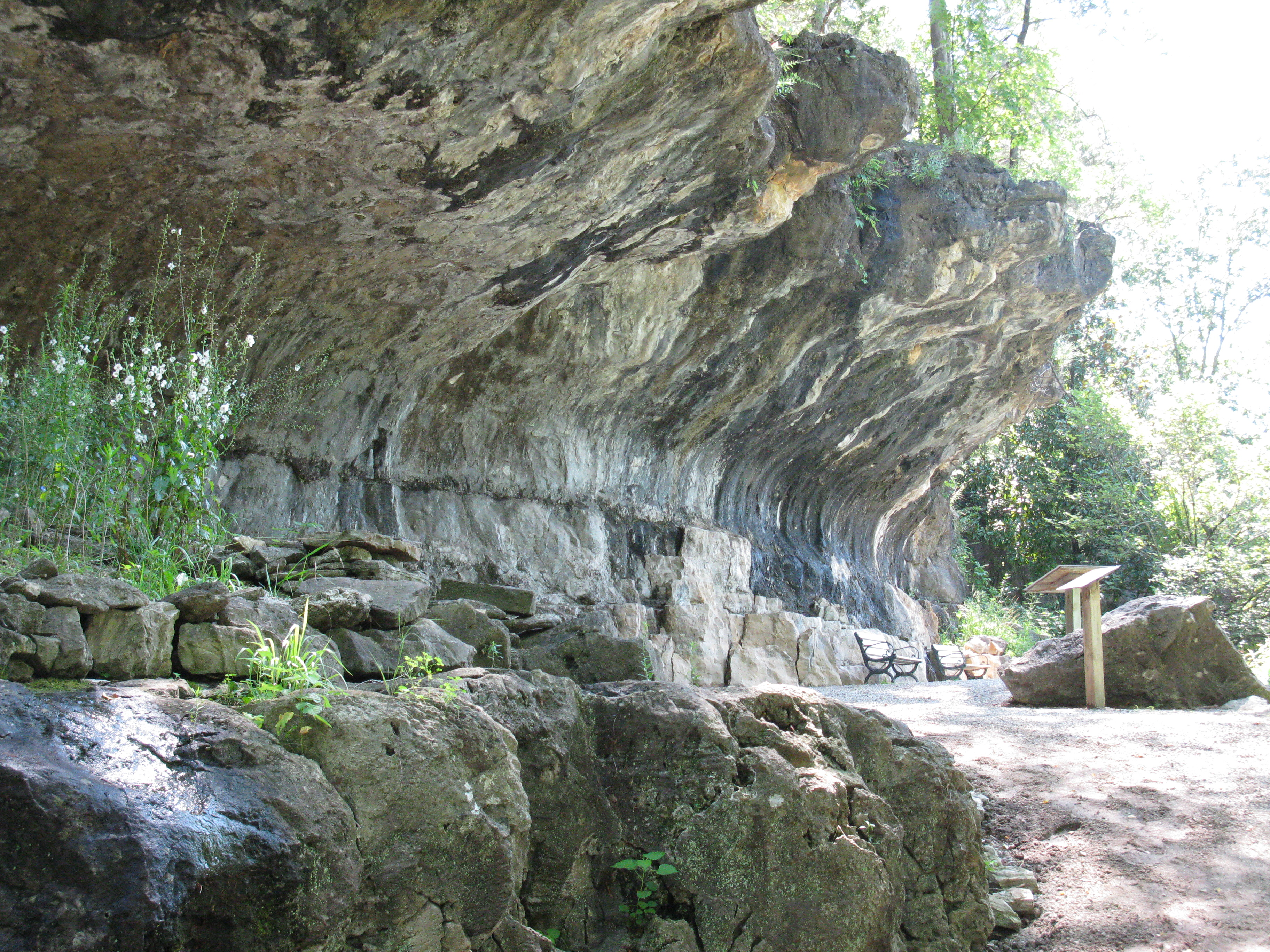 The Native American cliff shelter found at Blue Spring Heritage Center near Eureka Springs, Arkansas.